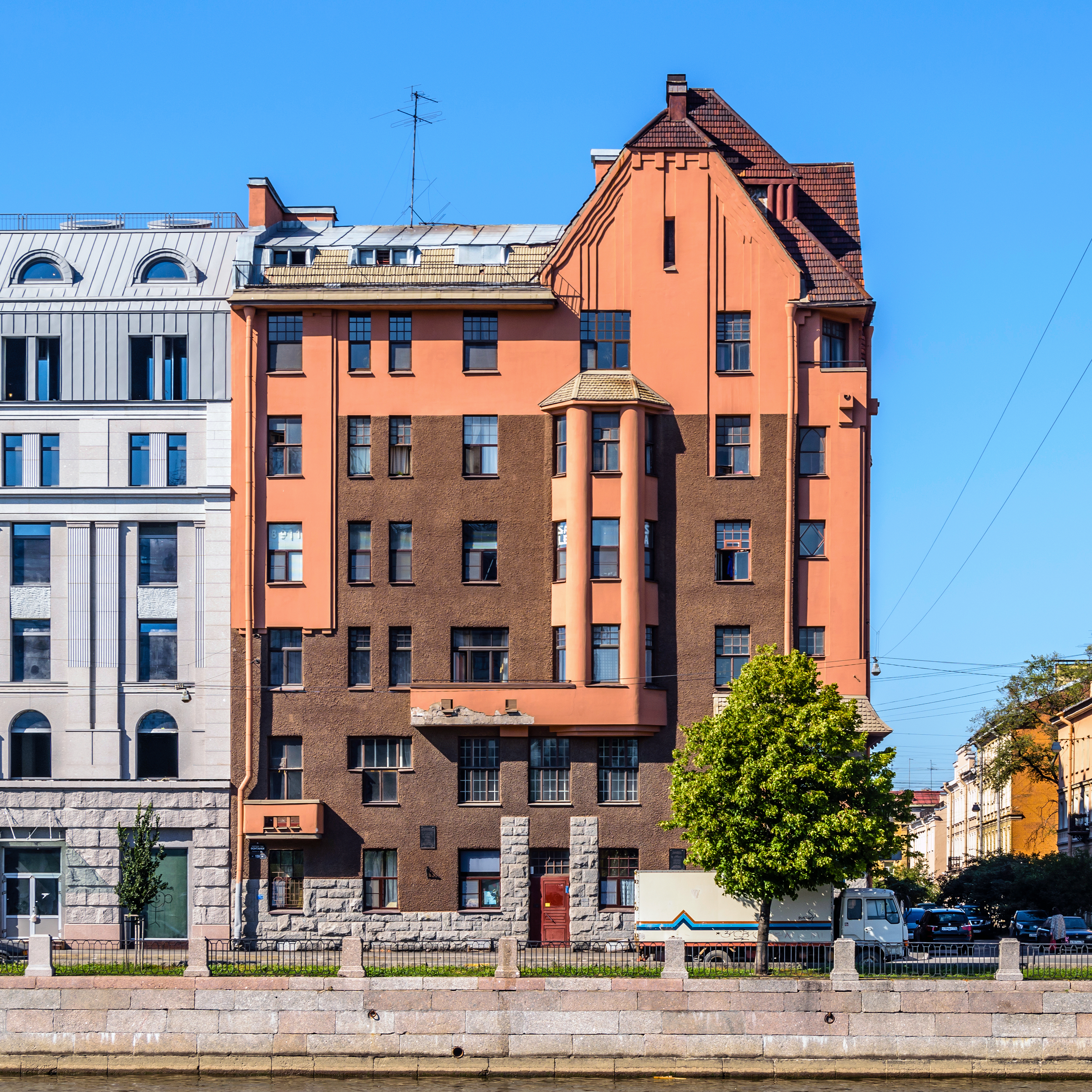 Fontanka Embankment in Saint Petersburg. Kapustin's Apartment House